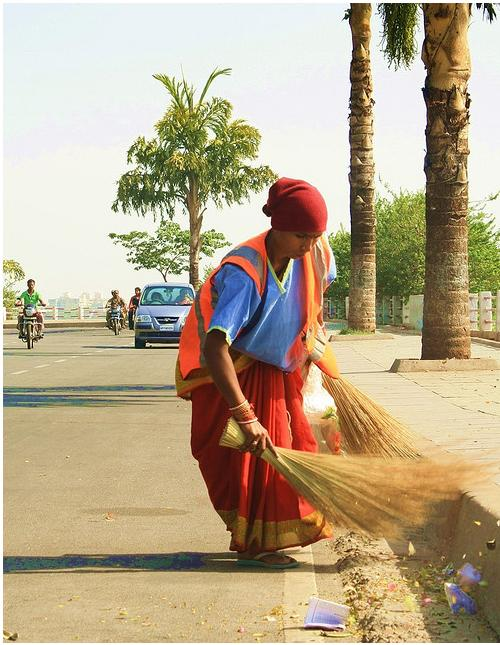 Street sccen at Necklace road (Hussain sagar), Hyderabad, India. Being clean mannualy by muncipality cleaners.